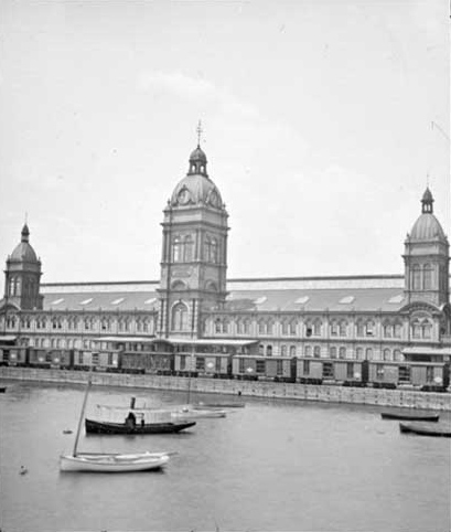 View of Union Station from the waterfront. (Toronto, Canada).